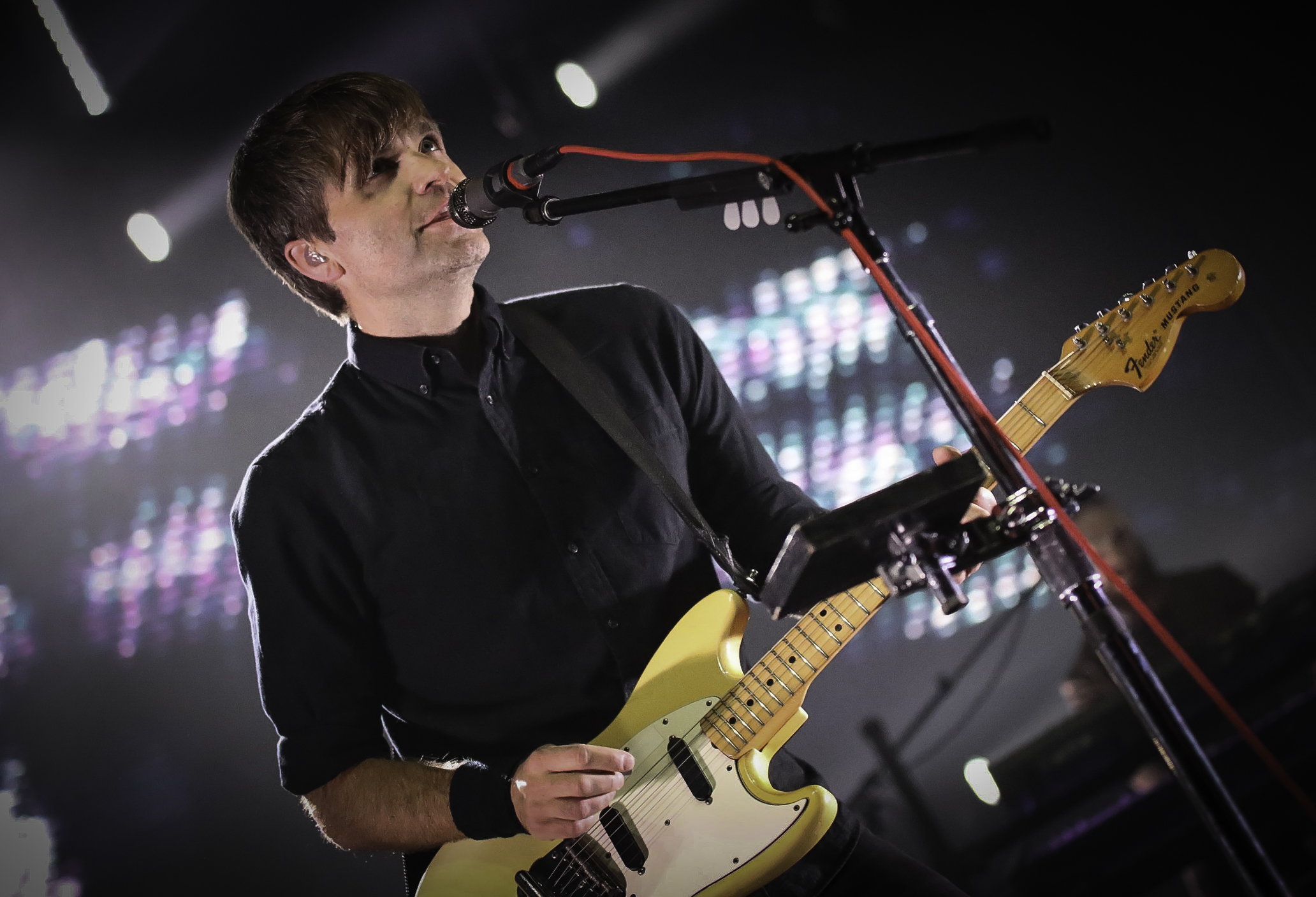 Ben Gibbard - Death Cab for Cutie - Palace Theatre St. Paul